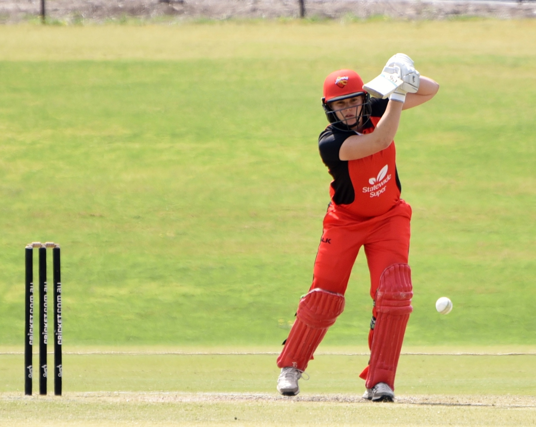 Samantha Betts batting for the South Australian Scorpions during a WNCL clash against the Western Fury at Murdoch University Sports Oval in Perth